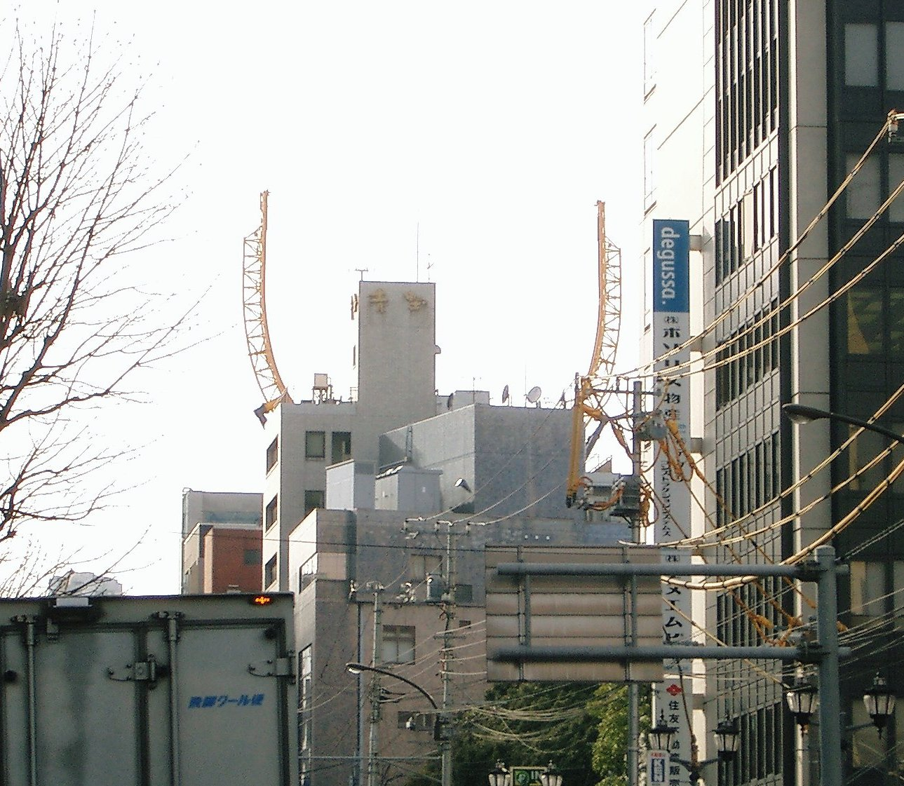 the amusument ride of Don Quijote (ドン・キホーテ) Roppongi store, which caused trouble with its neighbors